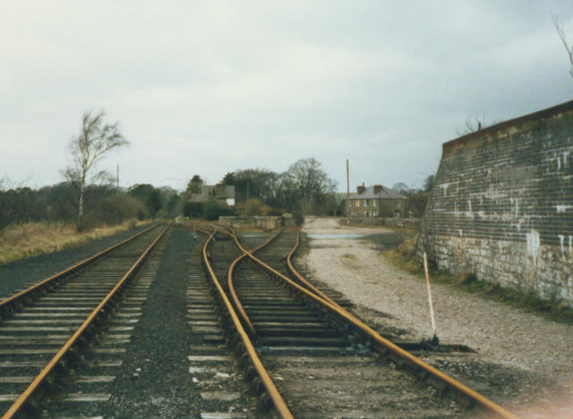 Rusty rails. The disused MOD sidings at Warcop before they were reused as shown in 76834.